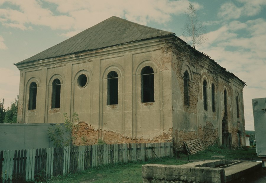 Ruined Synagogue in Ruzhany, Belarus